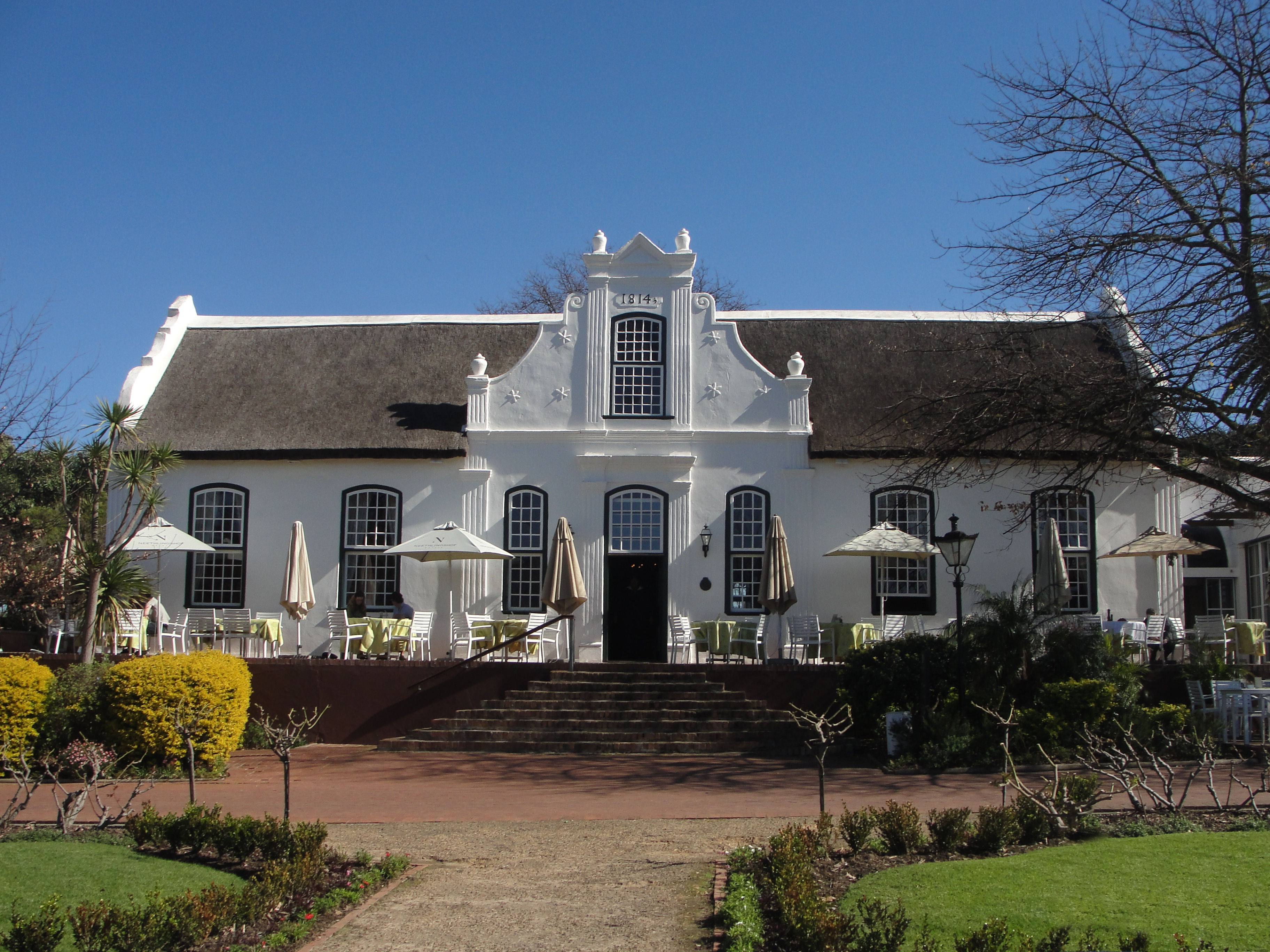 Neethlingshof This media shows a South African Protected Site with SAHRA file reference 9/2/084/0032.